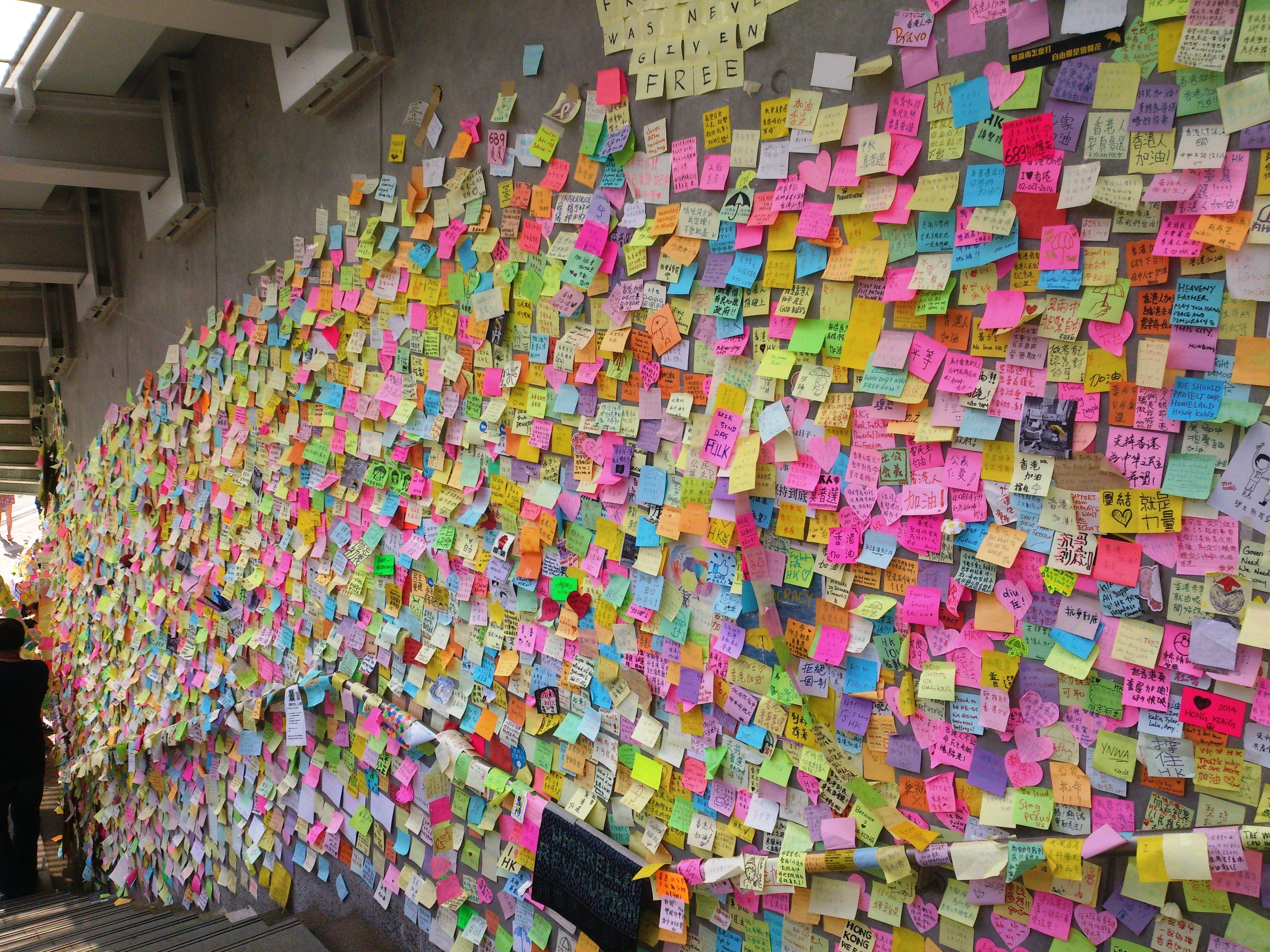 Close view of Hong Kong Lennon Wall on 2014-10-18 (3)